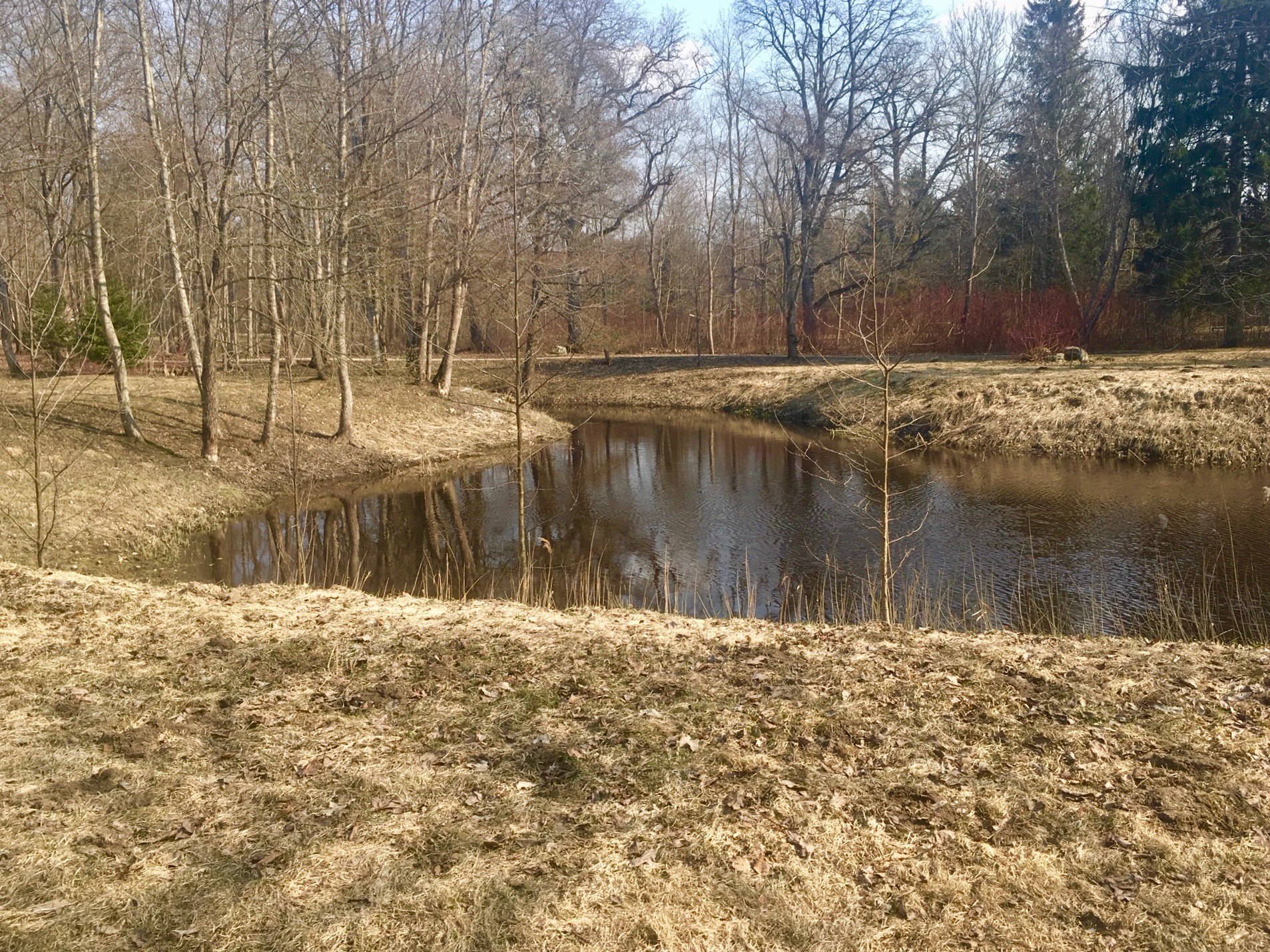 Ujumiskoht Paradiis